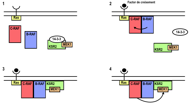 Diagram that reflects the role of KSR1 in MAPK pathway.